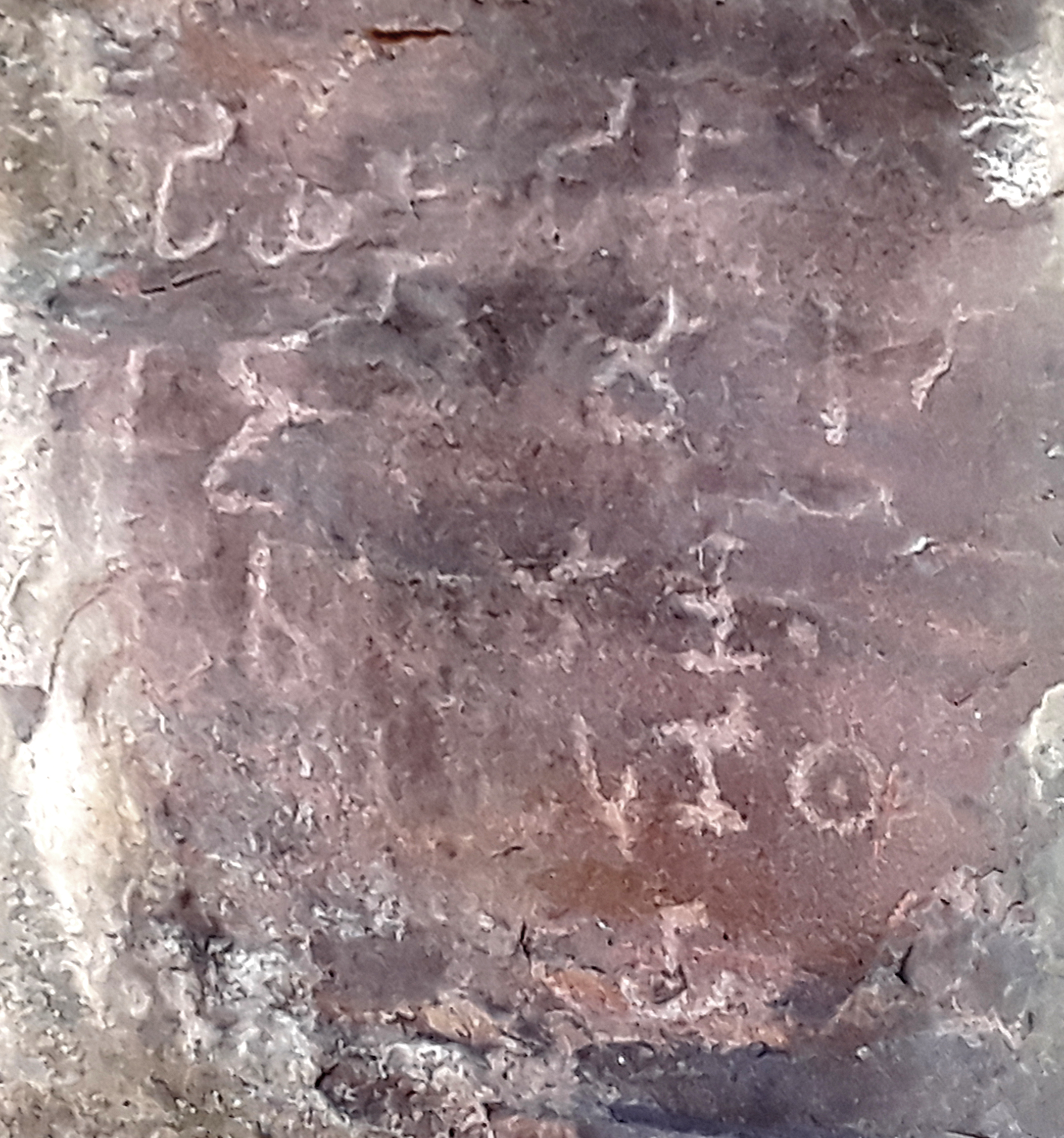 Panguraria Top View Closeup detail